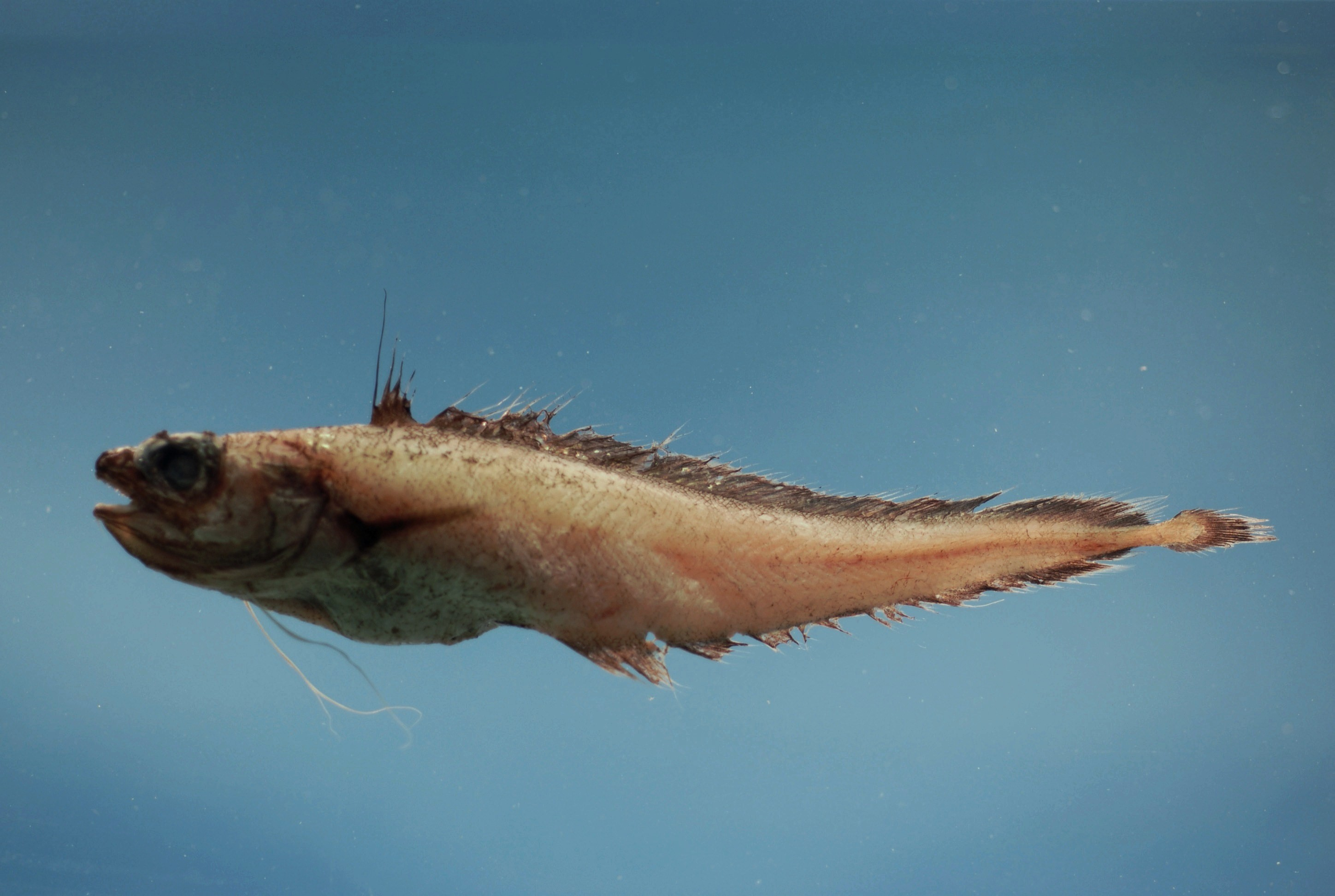 Laemonema barbatulum from the Gulf of Mexico